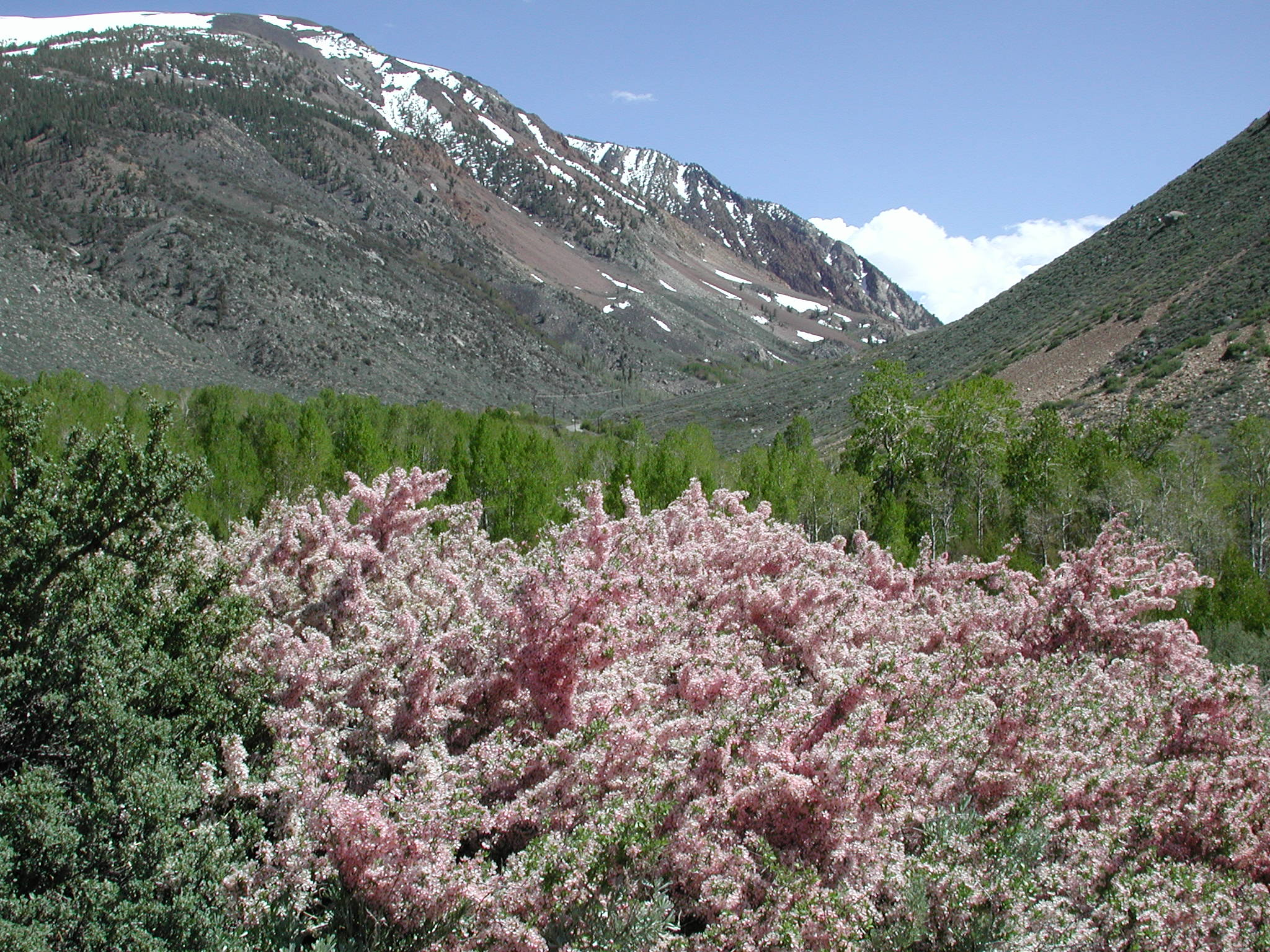 An early Spring flowering shrub common in the Eastern Sierra Nevada Mtns.